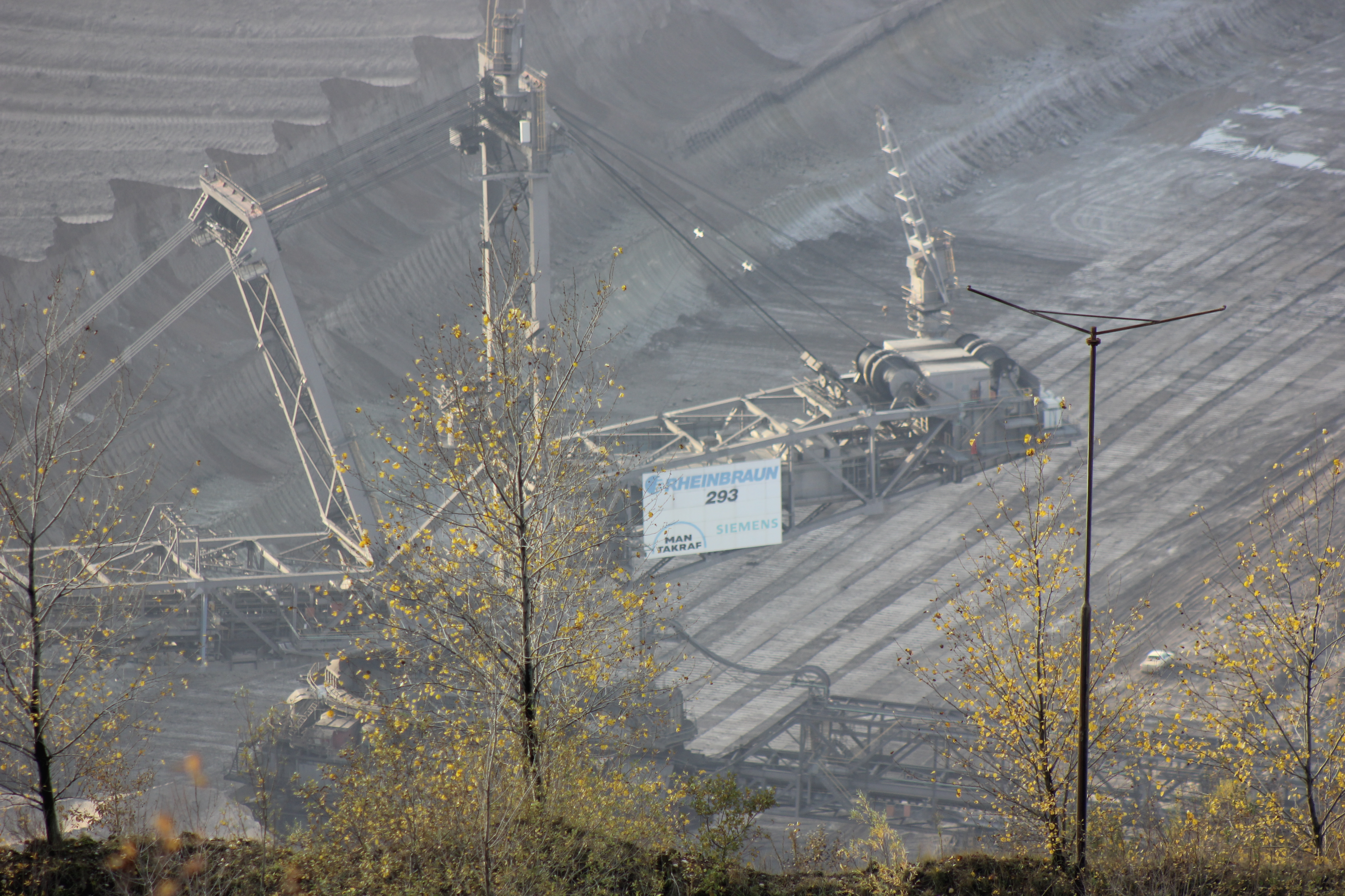 Bagger 293 (TAKRAF type SR 8000) at Hambach lignite mine, Germany